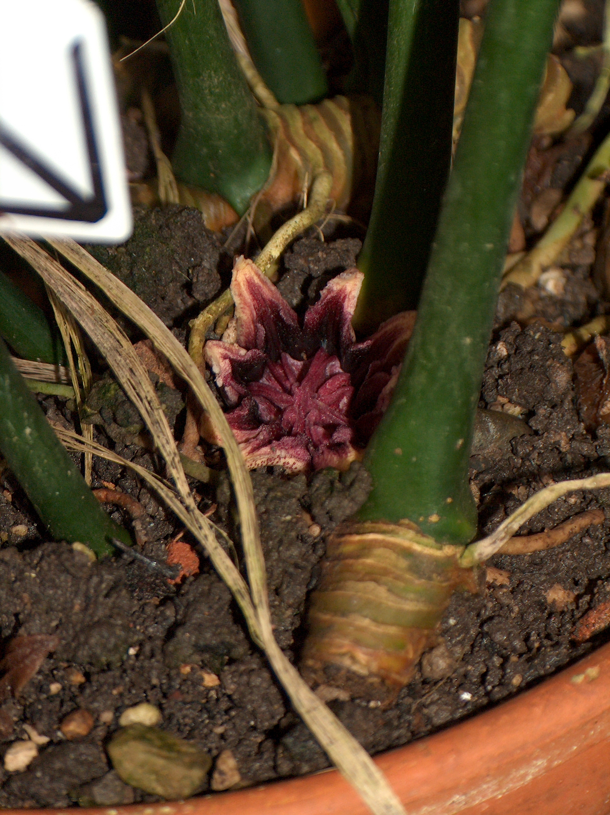 Flower of the Cast iron plant